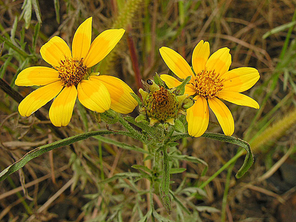 A Malawi version of the eastern African Bush Daisy.